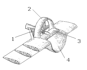 Channelwing innovations by Hanno Fischer (Mönchengladbach Germany), self created by Dr. Wessmann 2006